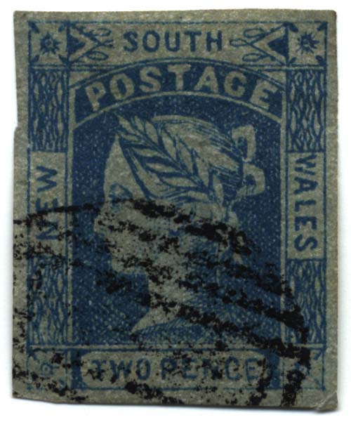 Scan of New South Wales 2-pence stamp of 1855